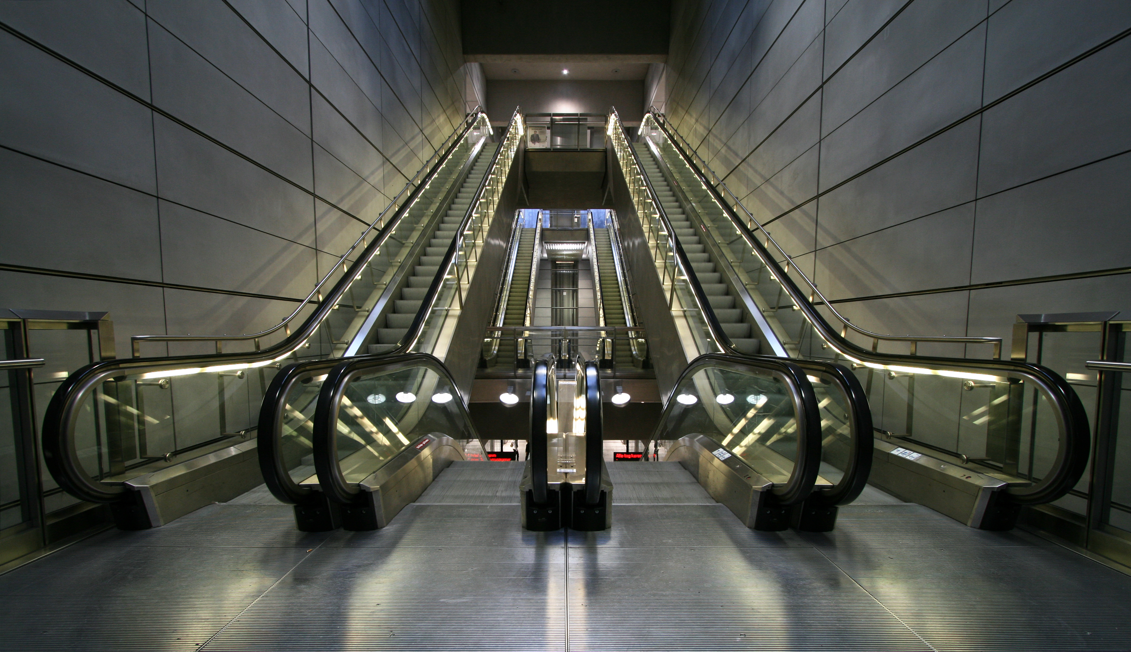 The following is the author's description of the photograph quoted directly from the photograph's Flickr page."I spent a whole lot of money this week buying a Canon EOS 400D (Digital Rebel XTi) dSLR camera and two good lenses for it. One of the lenses is a Canon EF-S 10-22mm wideangle zoom (equivalent to 16-35mm on a 35mm camera). That's a fun lens...Oh, and btw. This one taken at 400 ISO and still its pretty good quality (no noise reduction done in post-processing besides default, but actually a bit underexposed and "pushed" a lot which should increase visibility of noise). Just can't do that in acceptable quality with the tiny censors in compact/point-and-shot digital cameras. And yes, there's a little noise, but not that much. "